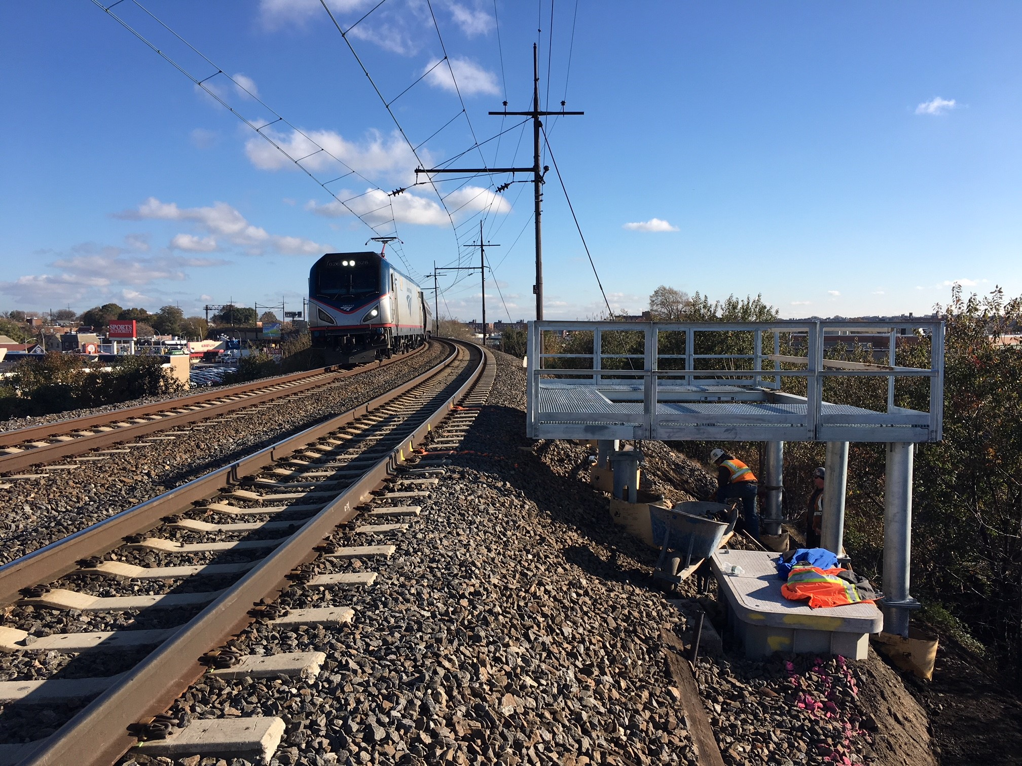 Concrete pour for Amtrak’s 4.6 Case Platform at track level adjacent to active rail in Woodside, Queens. (CQ033, 11-15-2017)